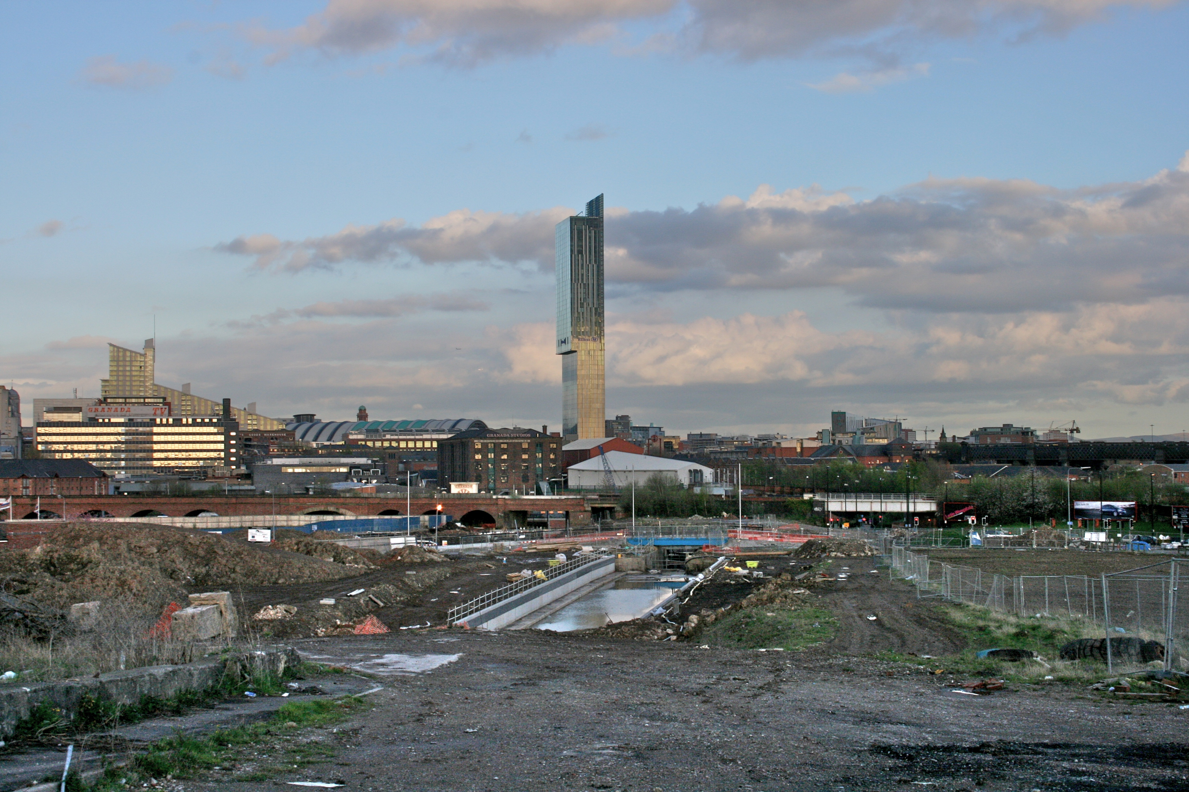 Manchester, Bolton and Bury Canal in Manchester, England, at the River Medlock end, with Beetham Tower in the background.